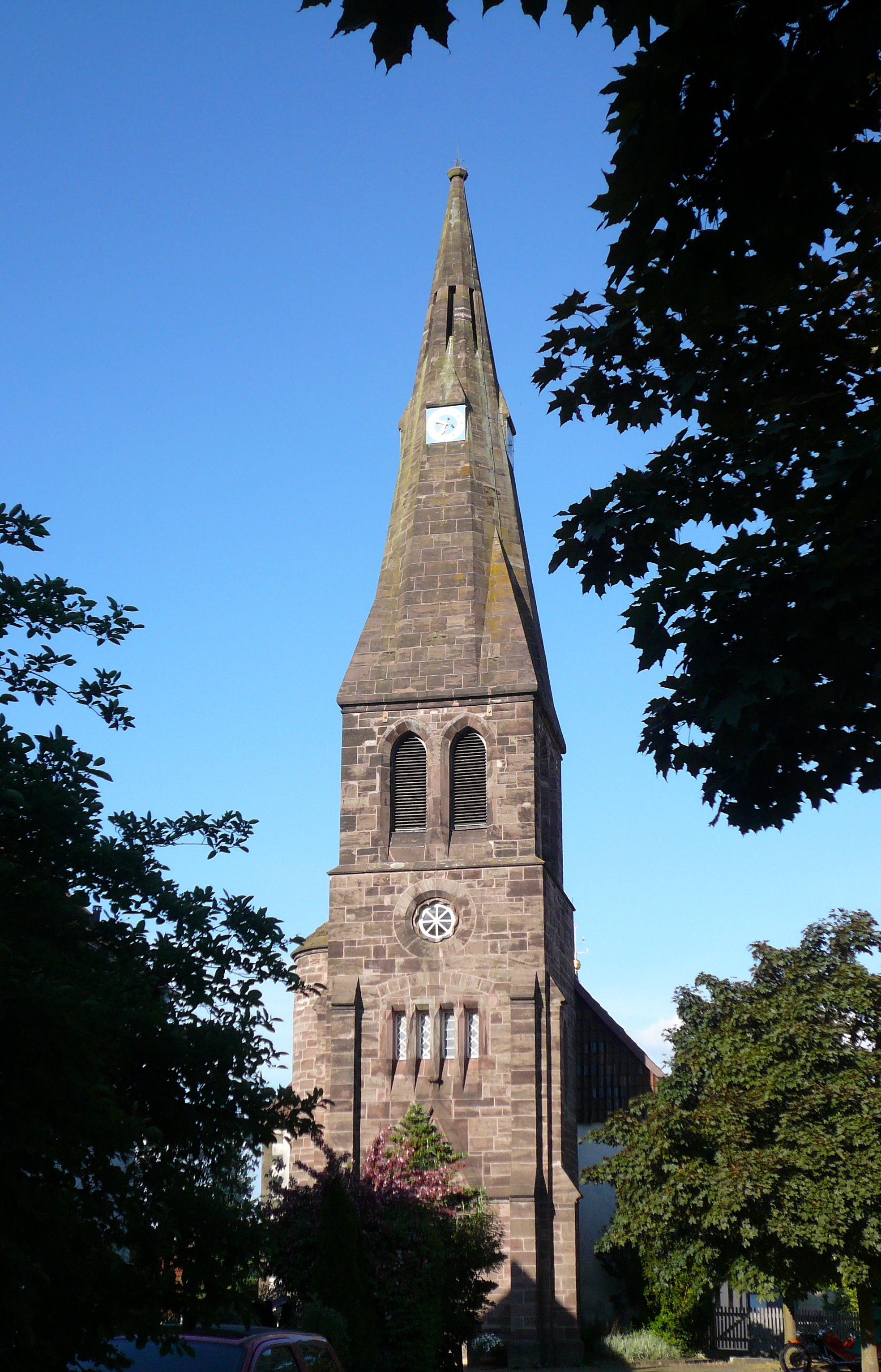 Church of Ellierode (Hardegsen)